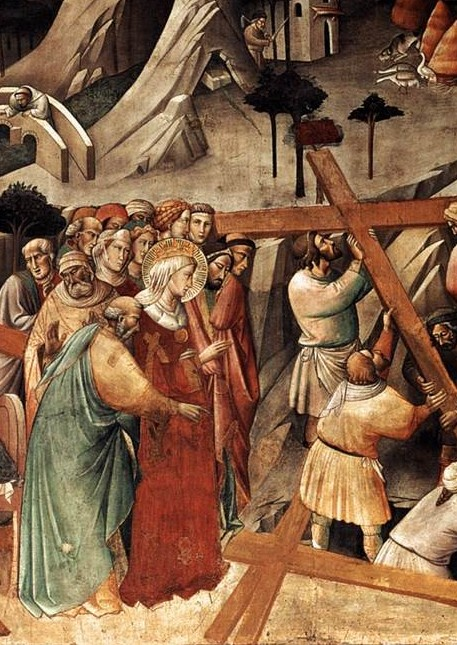 Italian Painting, Early Renaissance